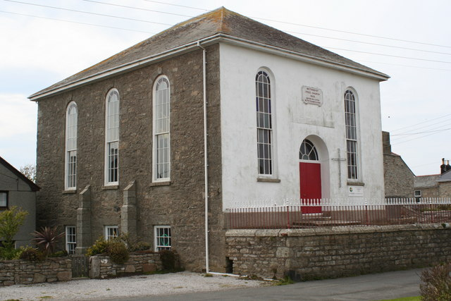 St Just Methodist Free Church Built in 1860. One of the many variations of Methodism, in 1907 the United Methodist Free Church merged with the Methodist New Connexion and the Bible Christians to form the United Methodist Church. In 1932 the United Methodists joined with the Wesleyan Methodists and the Primitive Methodists to form the Methodist Church of Great Britain.